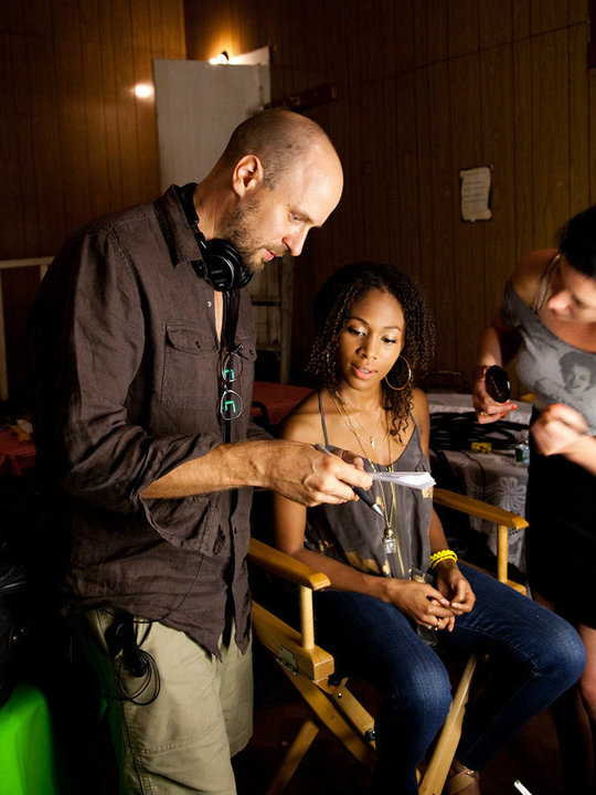 Production still from film "My Last Day Without You," starring Nicole Beharie and Ken Duken. Writer/Director Stefan Schaefer discusses a scene with actress Nicole Beharie on the set in Brooklyn, New York.